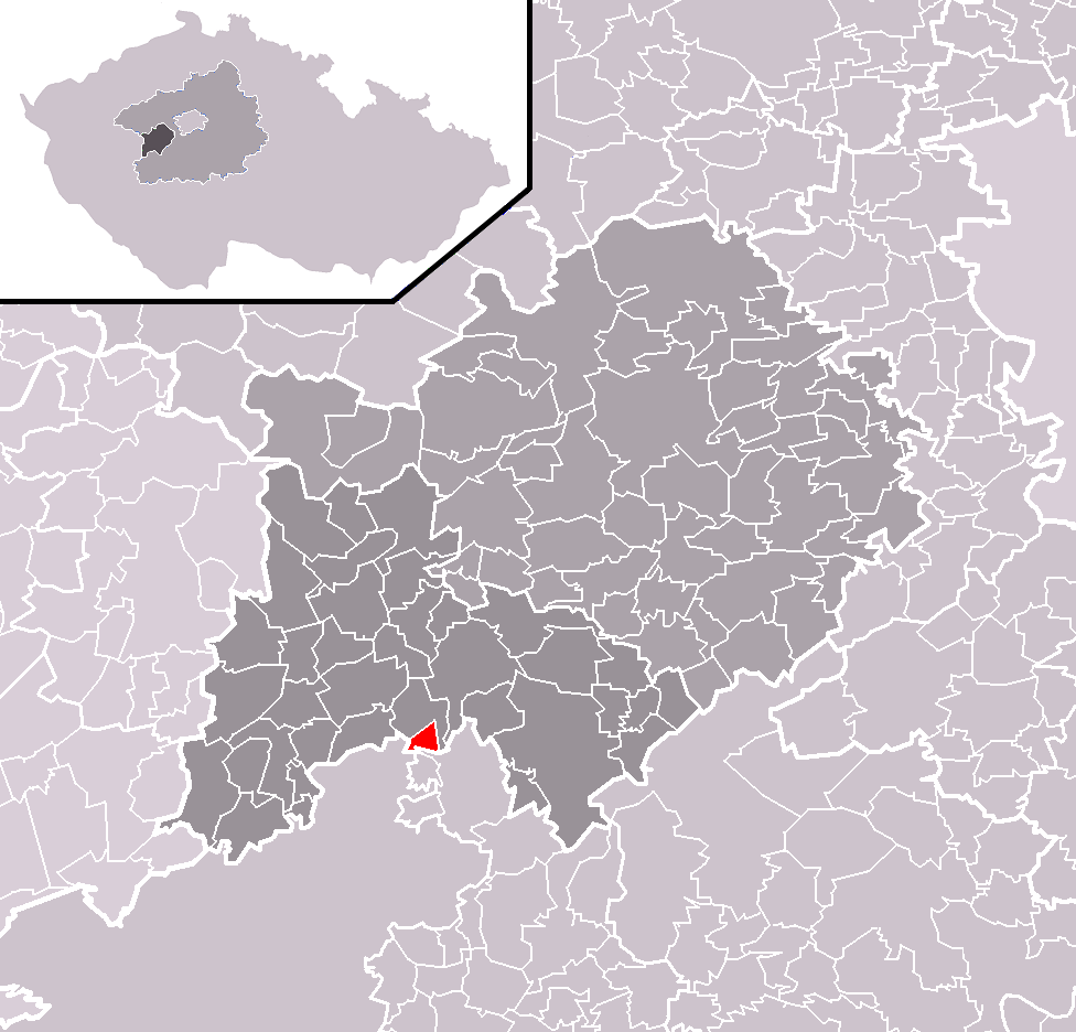 Location of Felbabka municipality within Beroun District and administrative area of Hořovice as a Municipality with Extended Competence.